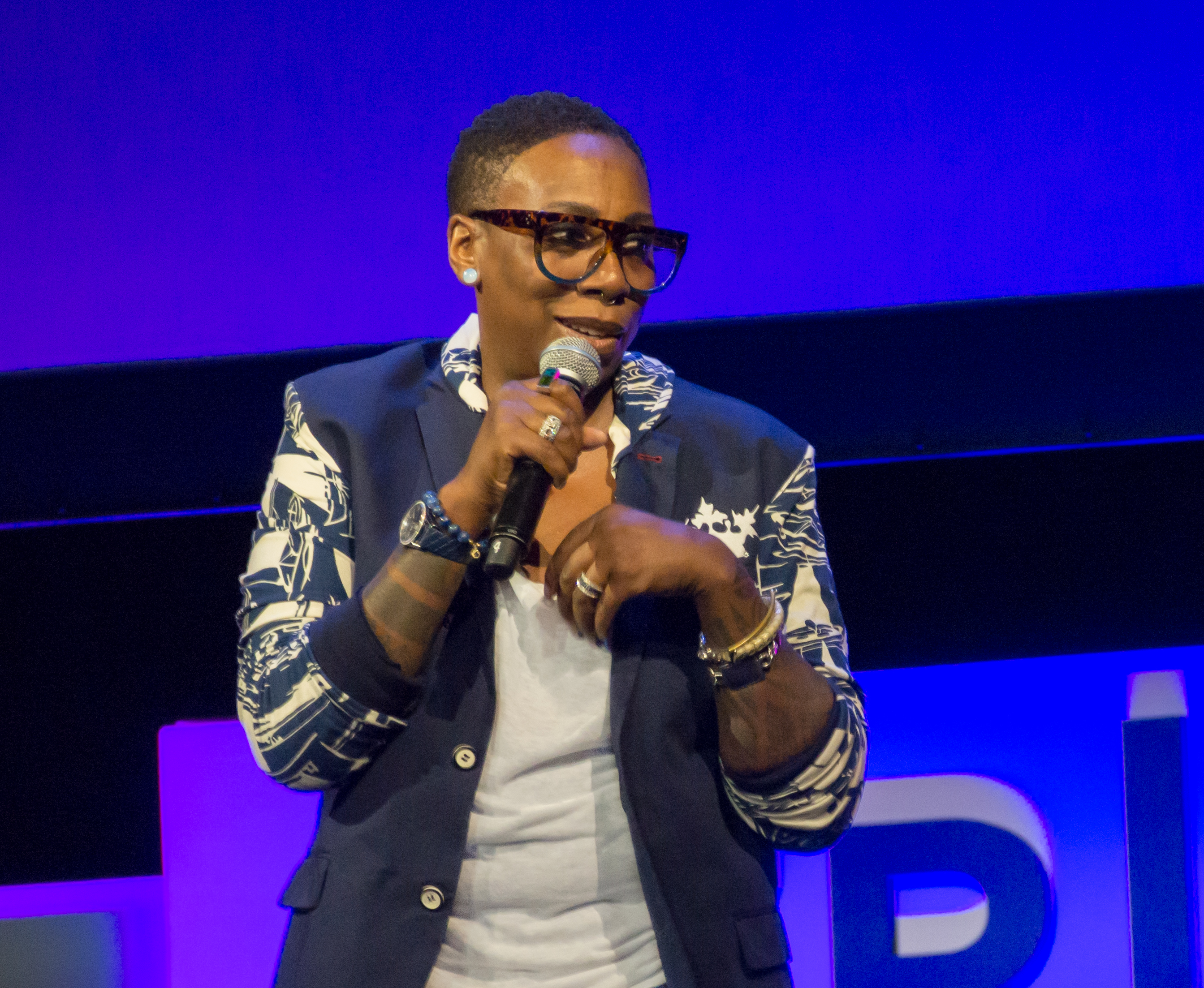 Time's Up event at the 2018 Tribeca Film Festival (Tribeca Talks: Time's Up). A series of talks/performances about Time's Up/sexual harassment. Gina Yashere during a Sisters of Comedy Standup performance.